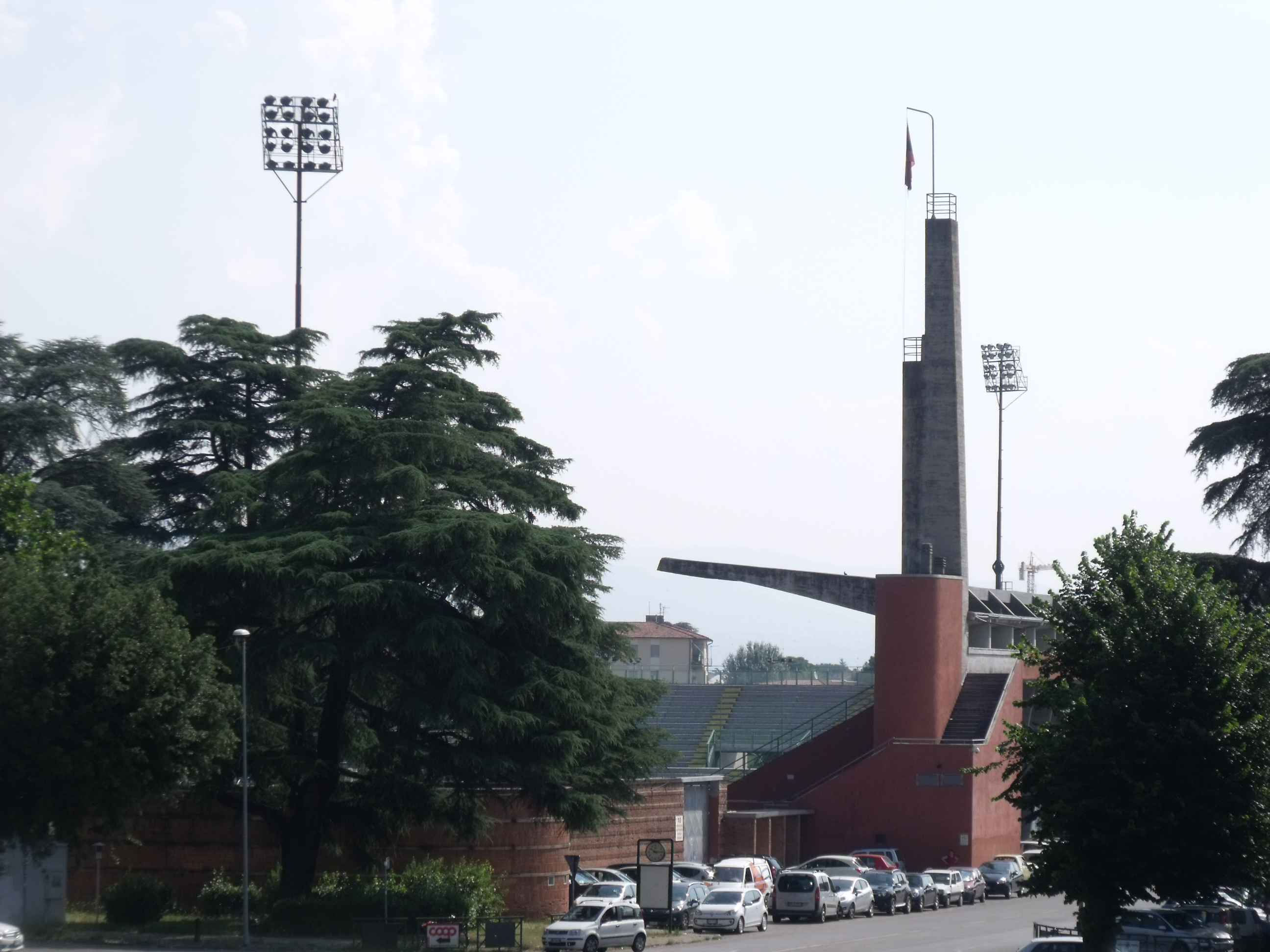 Stadium Porta Elisa in Lucca, Tuscany, Italy